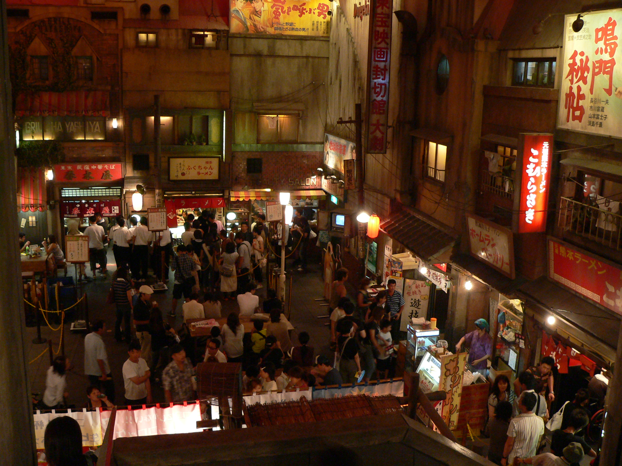 Ramen stands in the simulated Showa-era Japanese town in the Shin-Yokohama Raumen Museum in Shin-Yokohama, Japan.